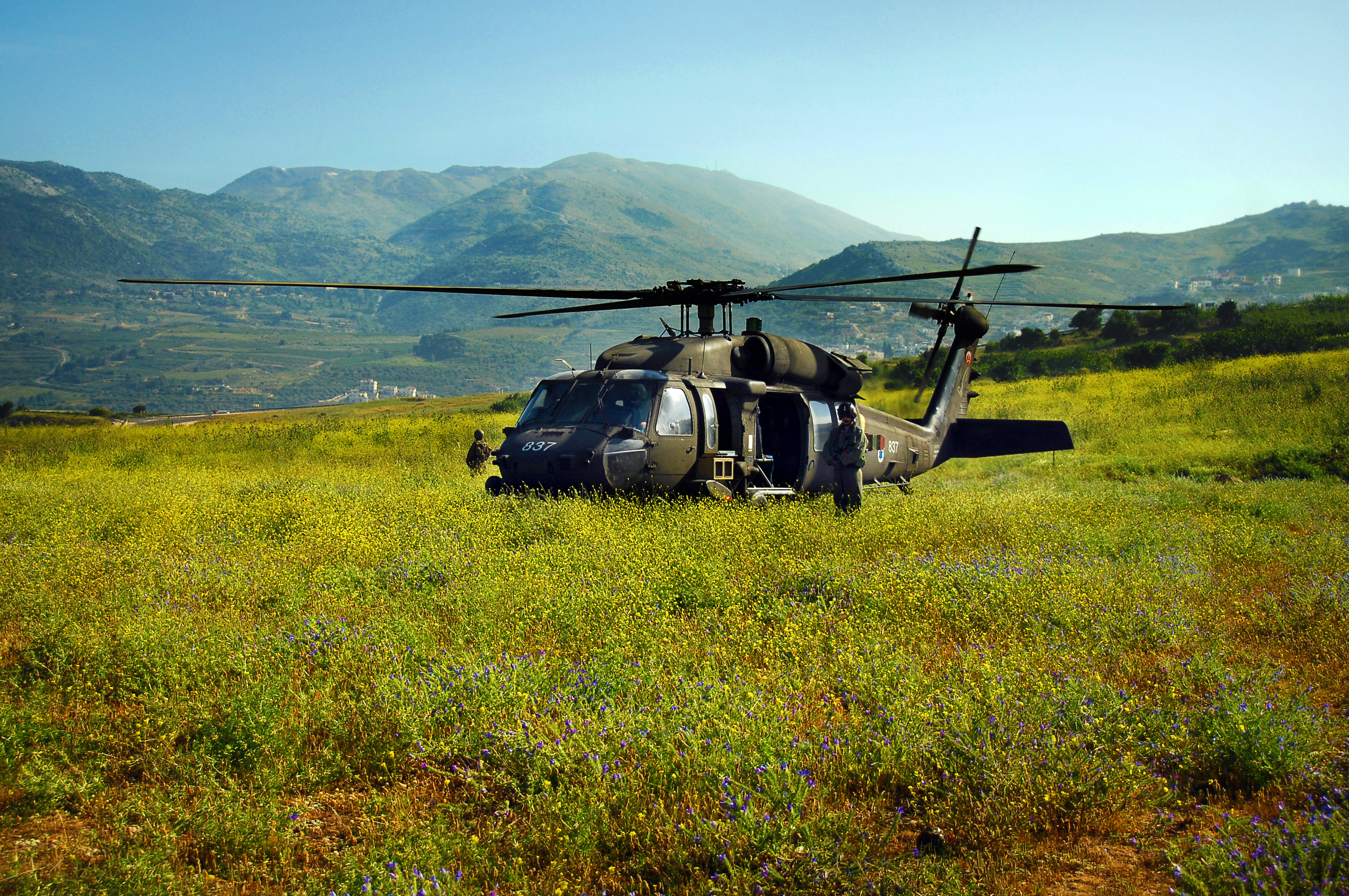 April 14, 2010 A Sikorsky UH-60 Black Hawk--an optimal helicopter for complex and difficult rescue and transport missions--lands in a Golan Heights field. The Black Hawk helicopter has high maneuverability and survivability, strong engines and high cargo-carrying capacity. The Black Hawk helicopter is also used by the Israeli Air Force to ferry Israeli defense and military officials. Photography: Sgt. Ori Shifrin, IDF Spokesperson's Unit